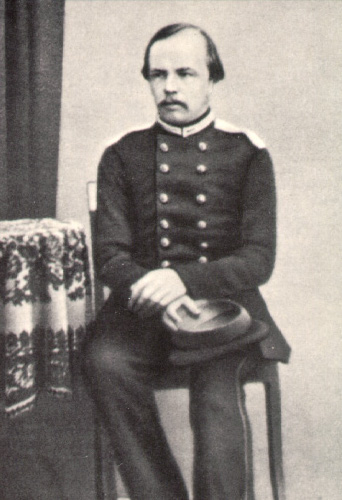 Fyodor Dostoevsky as an engineer